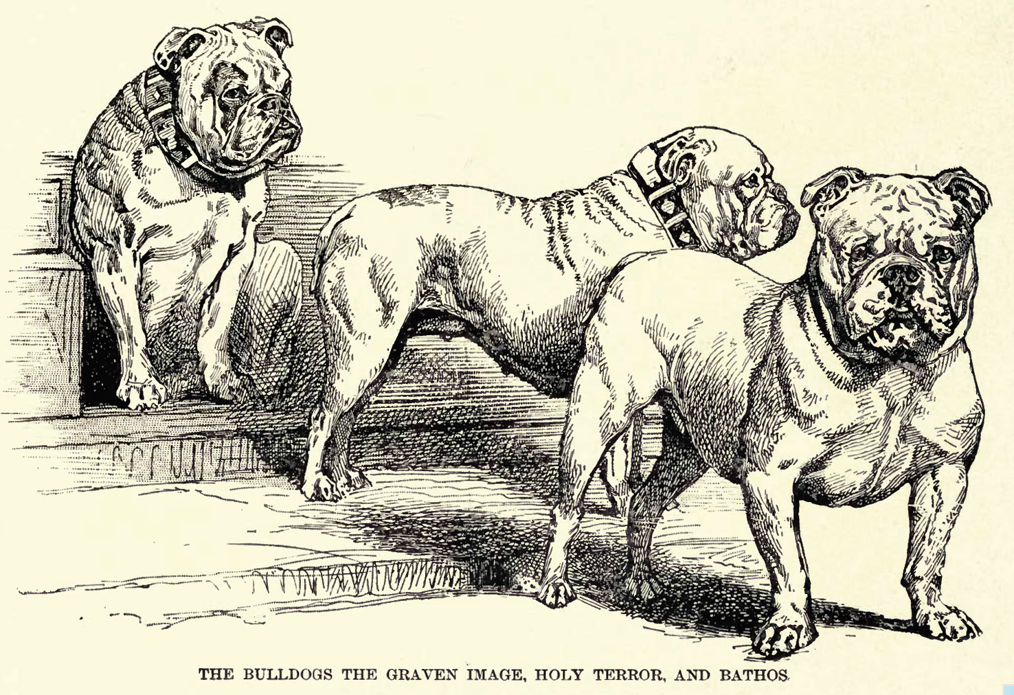 The Bulldogs: The Graven Image, Holy Terror and Bathos